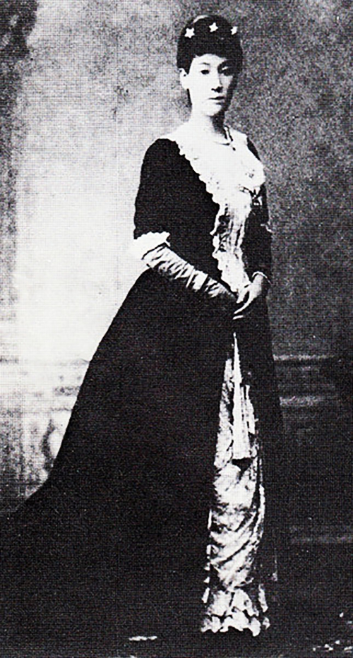 Countess Sutematsu Ōyama (1860–1919)